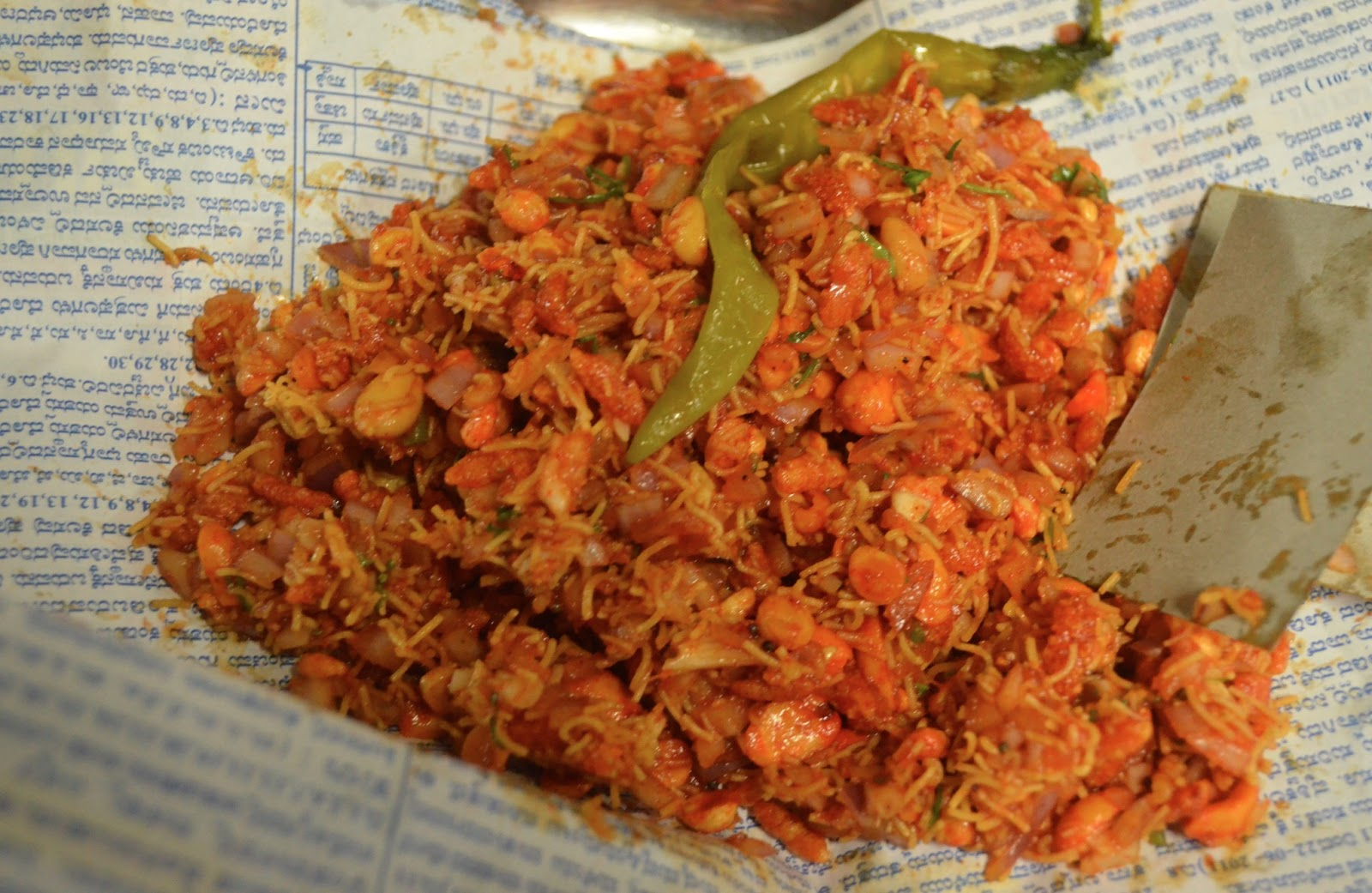 Rajabhau bhel near Khasbaug